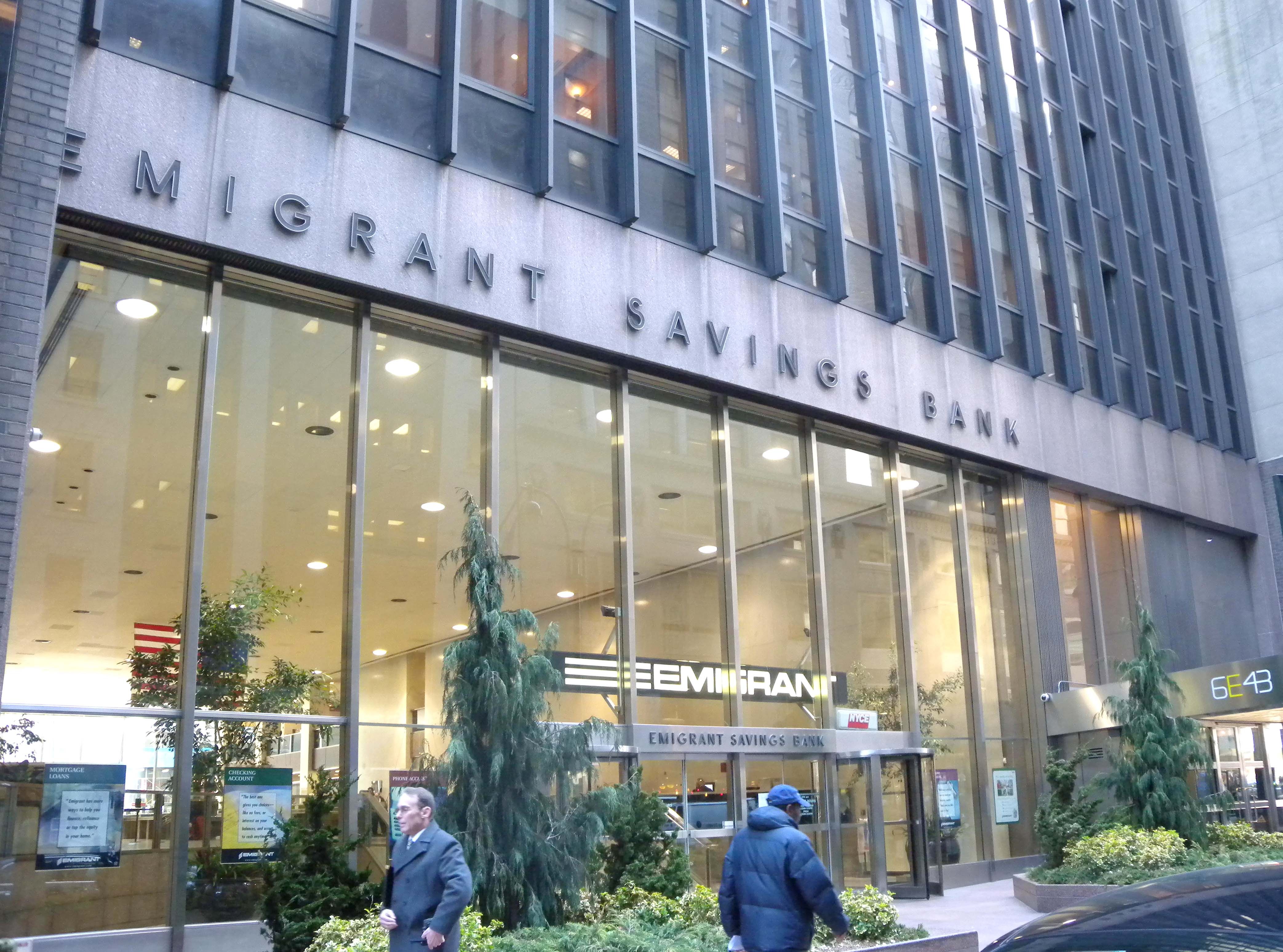 Looking southwest across East 43rd Street at Emigrant Savings Bank